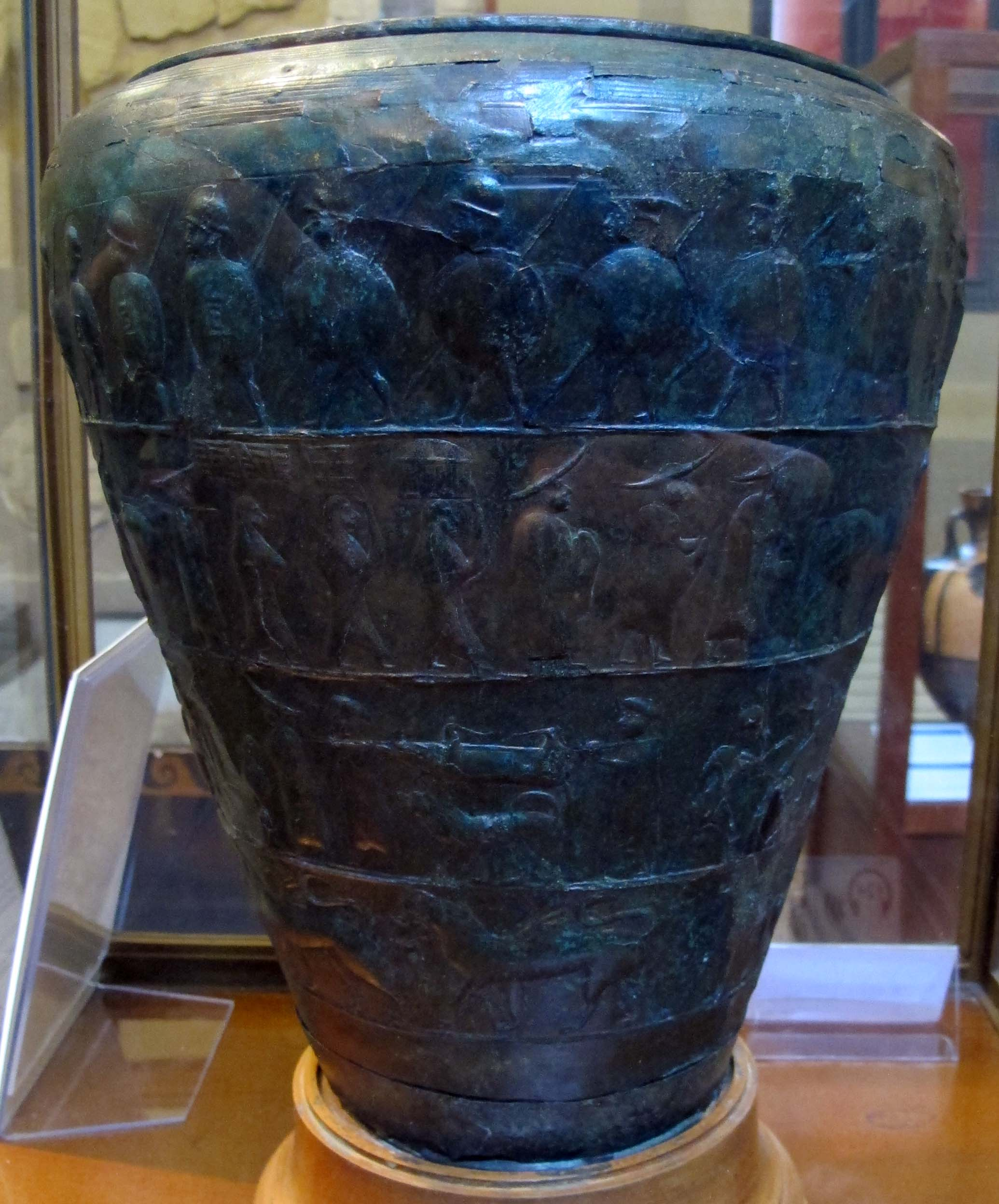 Etruscan antiquities in the Archeological Museum of Bologna